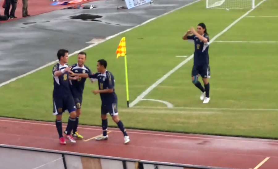 From left to right. Phil Younghusband celebrates his goal with Stephan Schrock, Chieffy Caligdong and Angel Guirado